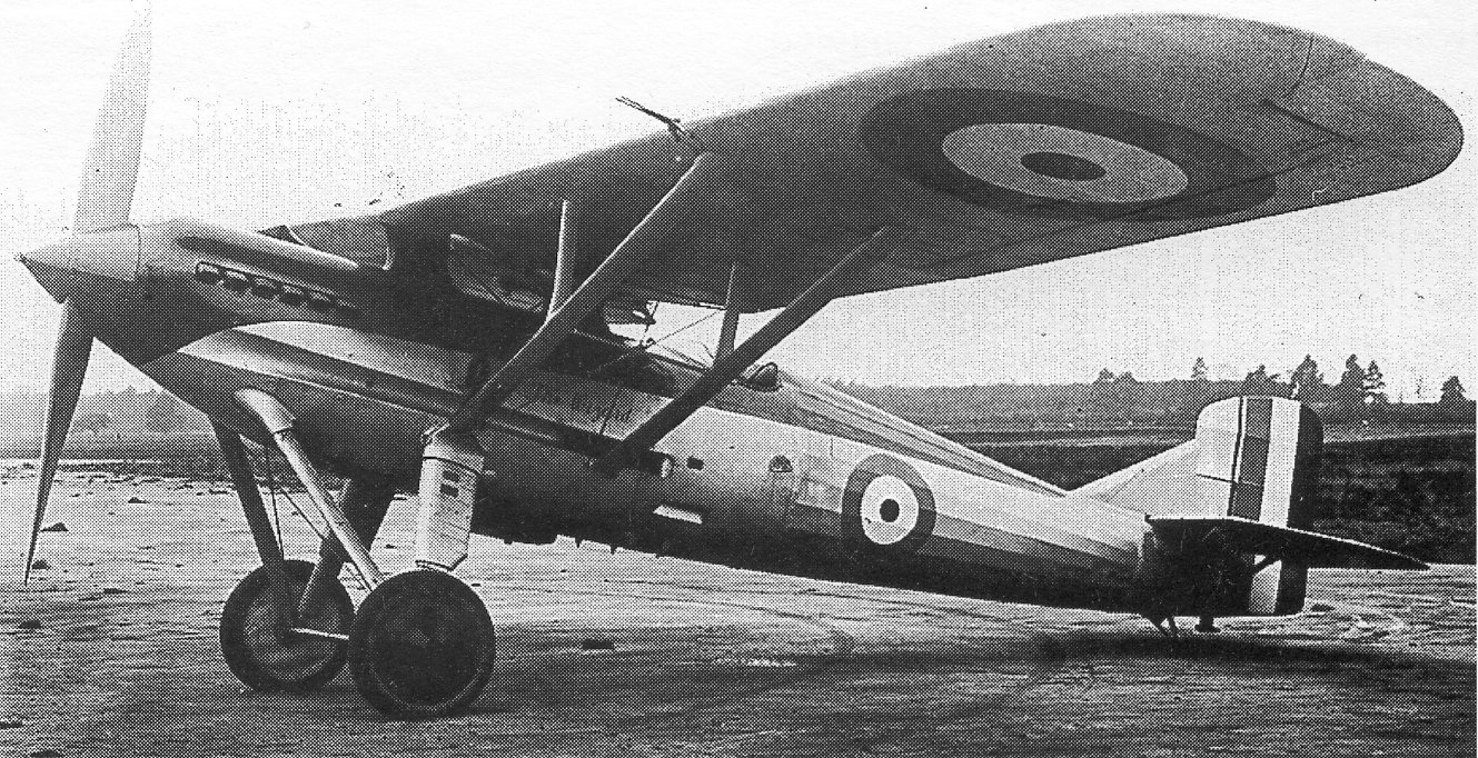 The sole Westland Wizard J9252 in original form with Rolls Royce Falcon engine and short ailerons.